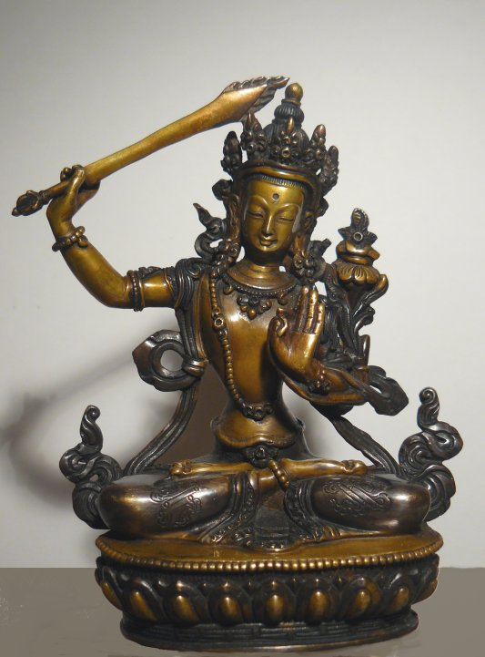 Small statue of Bodhisattva Manjusri